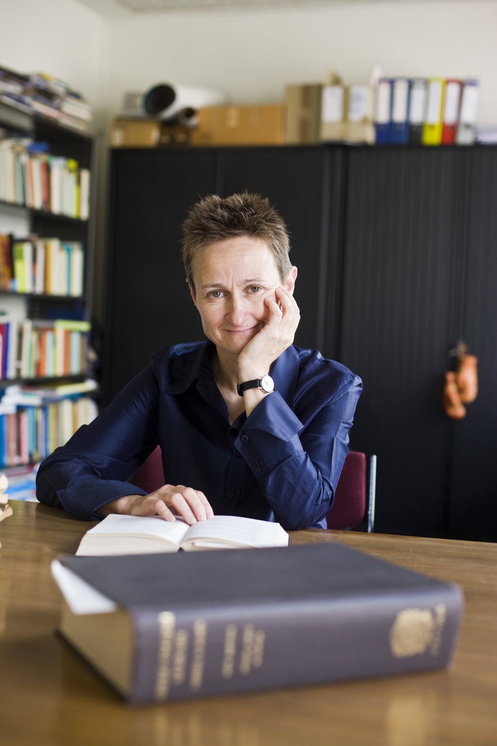 Dutch classical scholar Ineke Sluiter (2010)